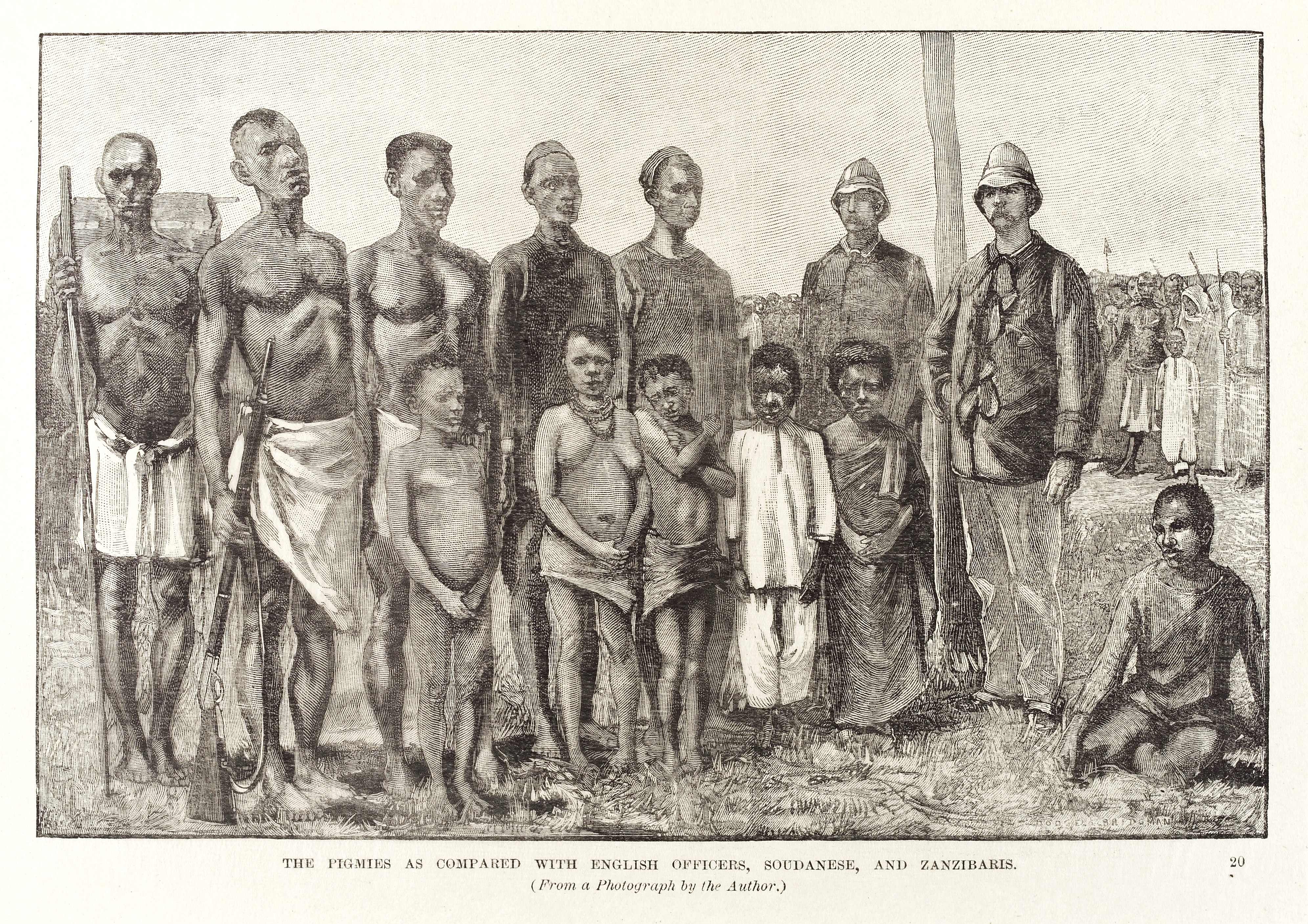 "The Pigmies as compared with English Officers, Soudanese, and Zanzibaris" Comparrison and differances of size and hight between the African Pigmies, Sudanese, English and Zanzibaris. General Collections Keywords: Emil Pasha; Expedition; Travel; Henry Morton Stanley; Emin Pasha Relief Expedition; Travels; Exploration; J. D Cooper; Expeditions